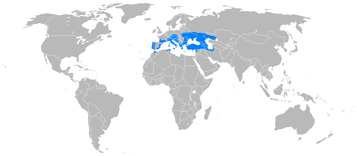 Distribution map of the European pond terrapin Emys orbicularis.